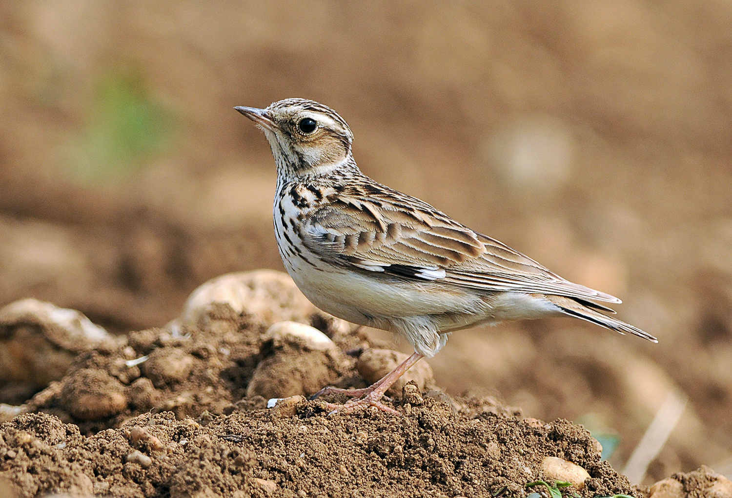 Lullula arborea, Wagram vineyard, Austria.